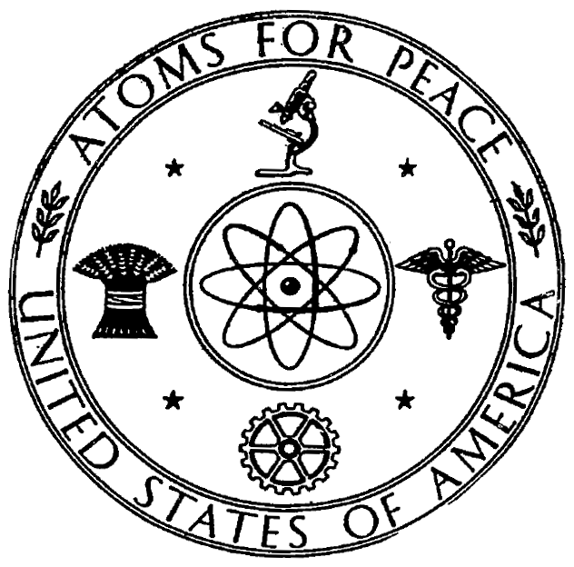 Atoms For Peace symbol used by the United States Atomic Energy Commission on a document cover page in 1955. It was mounted over the door to the American swimming pool reactor building during the 1955 International Conference on the Peaceful Uses of Atomic Energy in Geneva. Around a representation of an atom are symbolised four areas civil atomic energy: scientific research, medicine, industry, agriculture. Two olive branches symbolise peaceful use.